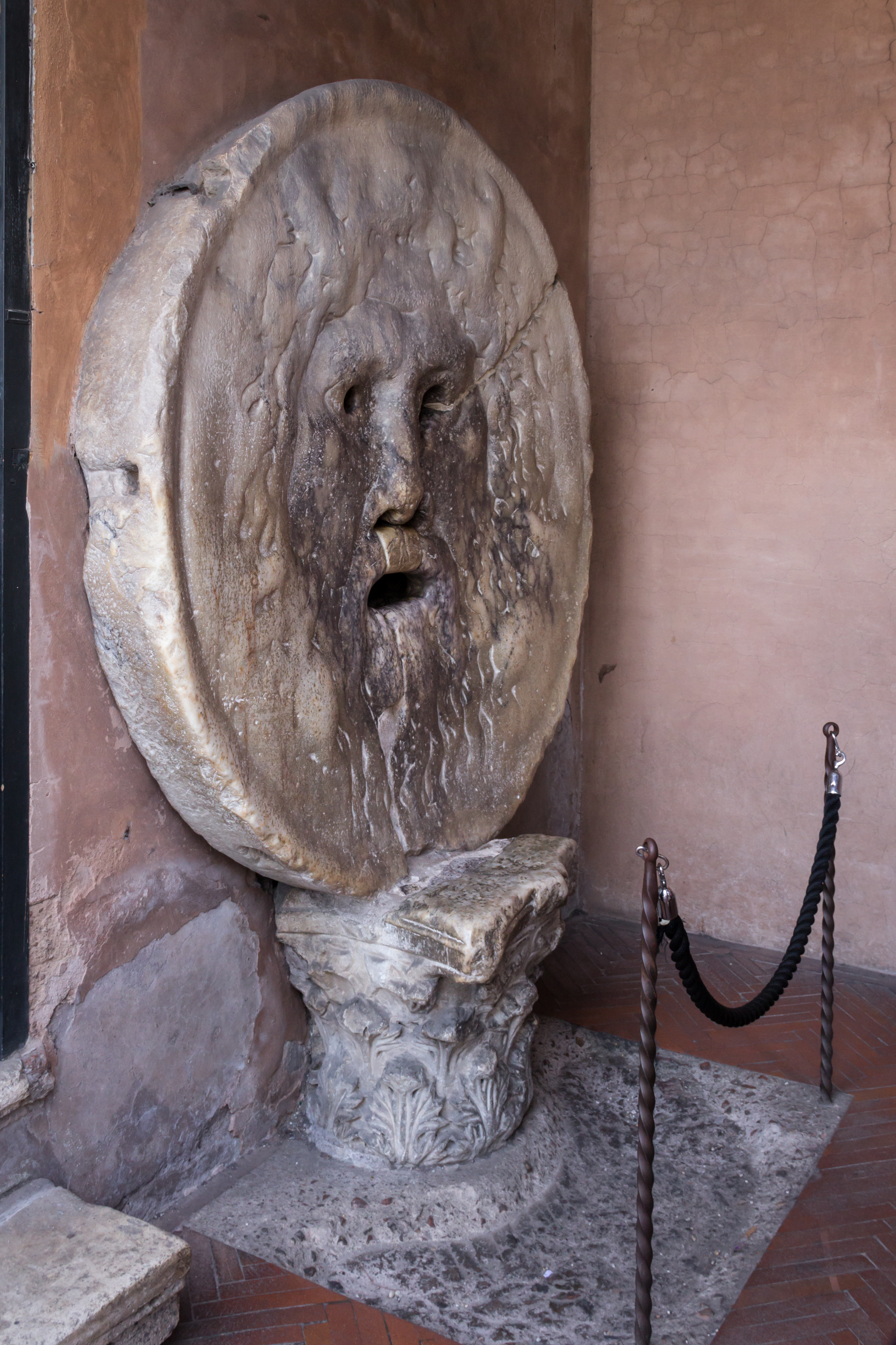 Bocca della Verità, Rome, Italy Sculpture TitleBocca della VeritàArtistUnknown artistDateUnknown dateUnknown date